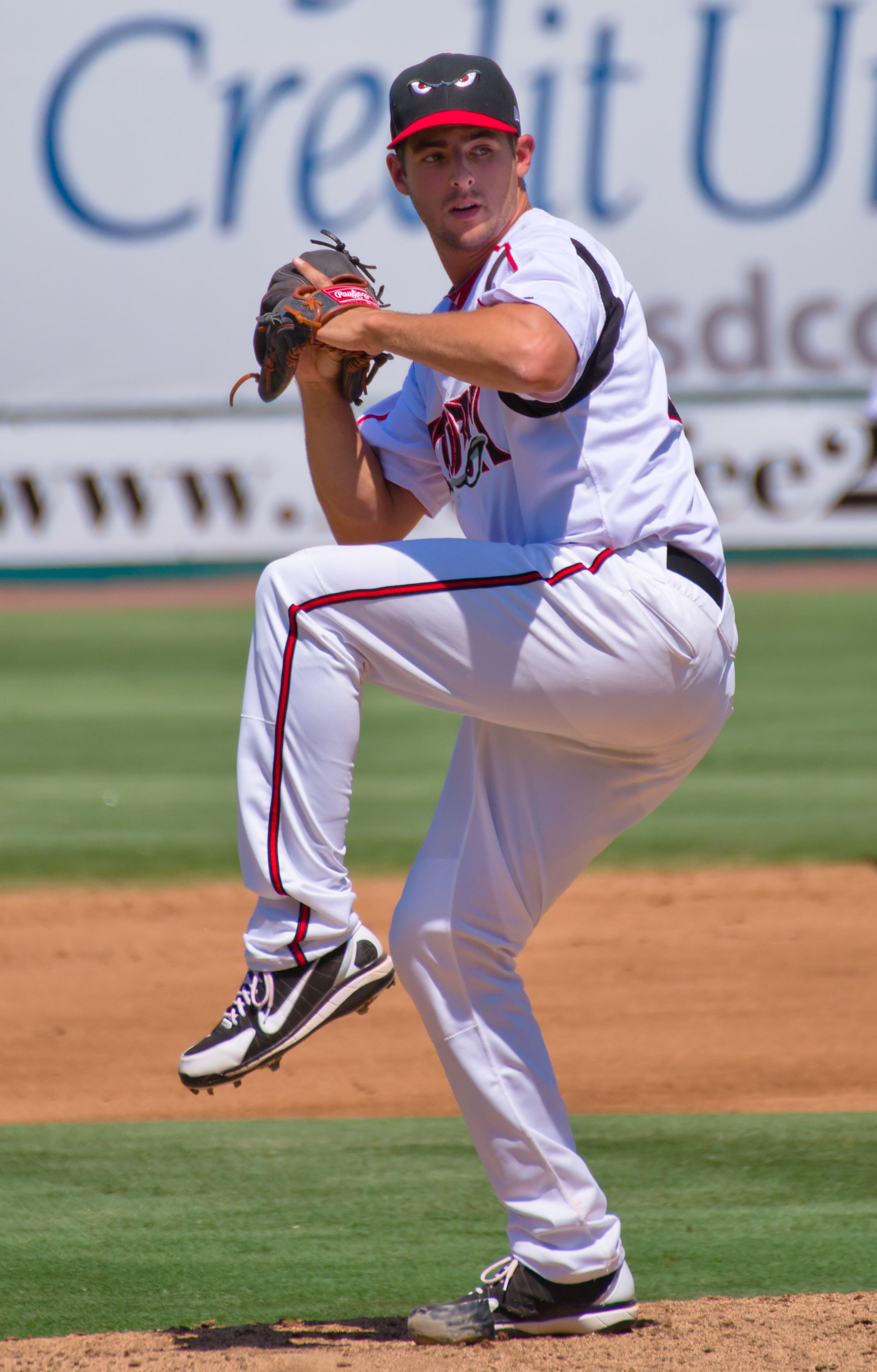 Donn Roach of the Lake Elsinore Storm, minor league baseball player in San Diego Padres farm system 2012